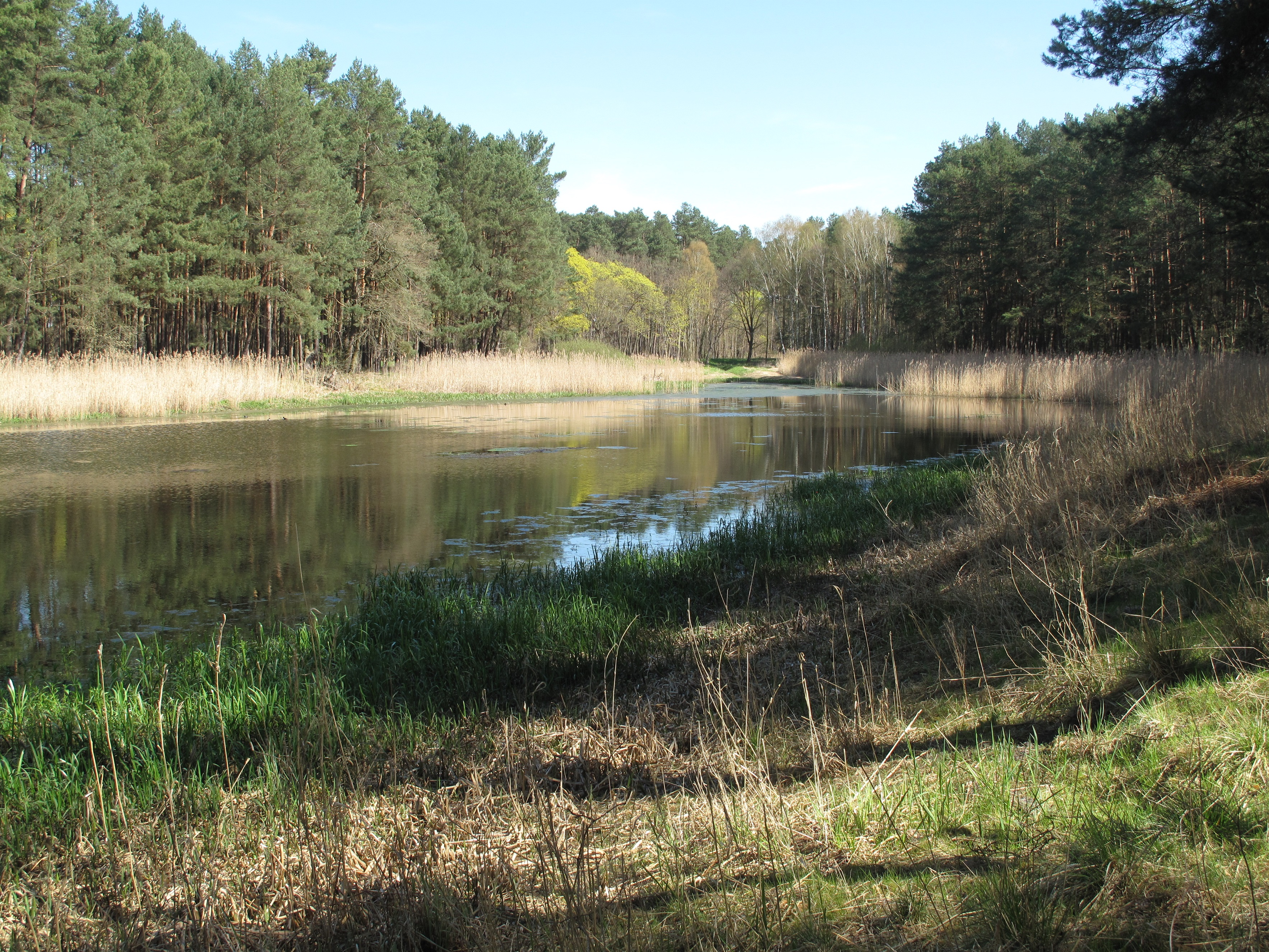 Major lake of the two lakes in the Reichardtsluch. The Reichardtsluch (other spellings: Reichardsluch, Reichards-Luch) is a Luch in Limsdorf, a part (german: Ortsteil) of the town Storkow in the District Oder-Spree, Brandenburg, Germany. It is situated in the Dahme-Heideseen Nature Park. The Luch is a part of the Natura 2000-area Schwenower Forst Ergänzung (Schwenower Forst supplement), which belongs to the Natura 2000-area und protected area Naturschutzgebiet Schwenower Forst. It is protected for its amphibian conservation. The Reichardtsluch is flown by the Schwenowseegraben.